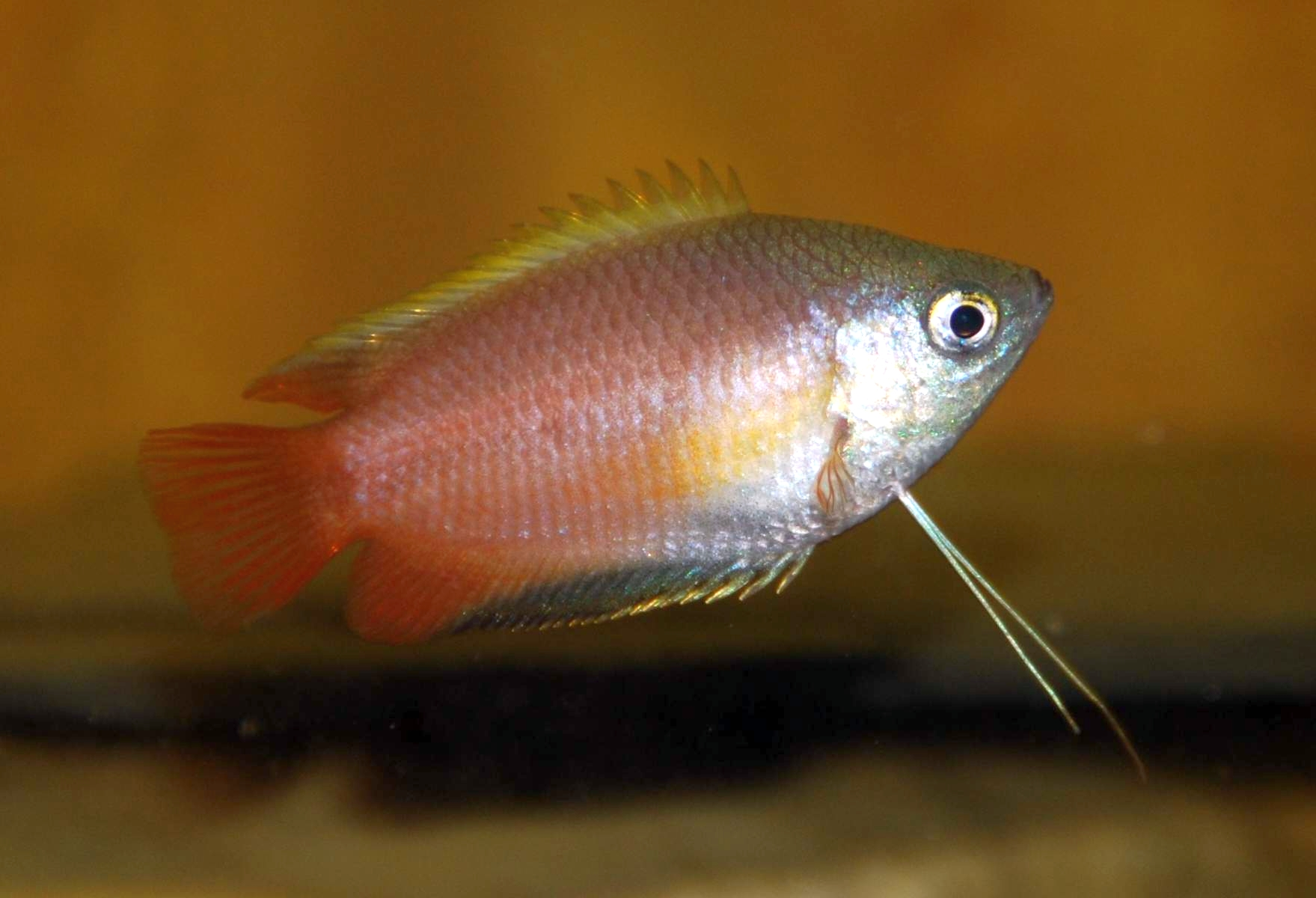 Colisa chuna male